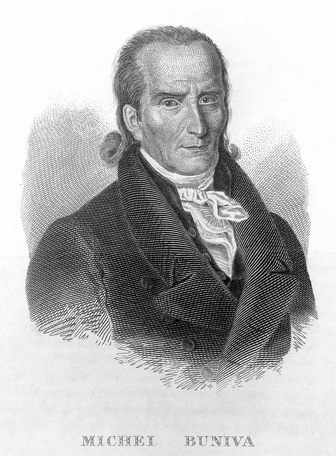 Portrait of Michele Francesco Buniva Rare Books Keywords: Michele Francesco Buniva; Claude Julien Bredin